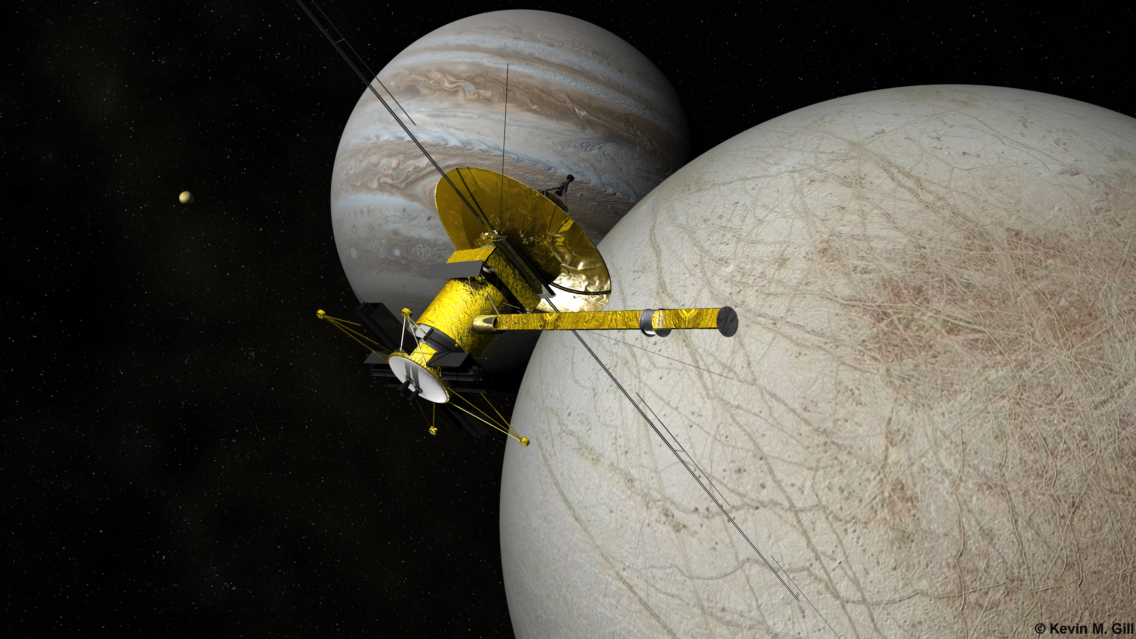 A reimagining of my model depicting the Europa Clipper Mission spacecraft. Rendered using Autodesk Maya and layer compositing done in Adobe Photoshop. Planet textures sourced from the Celestia Motherload.